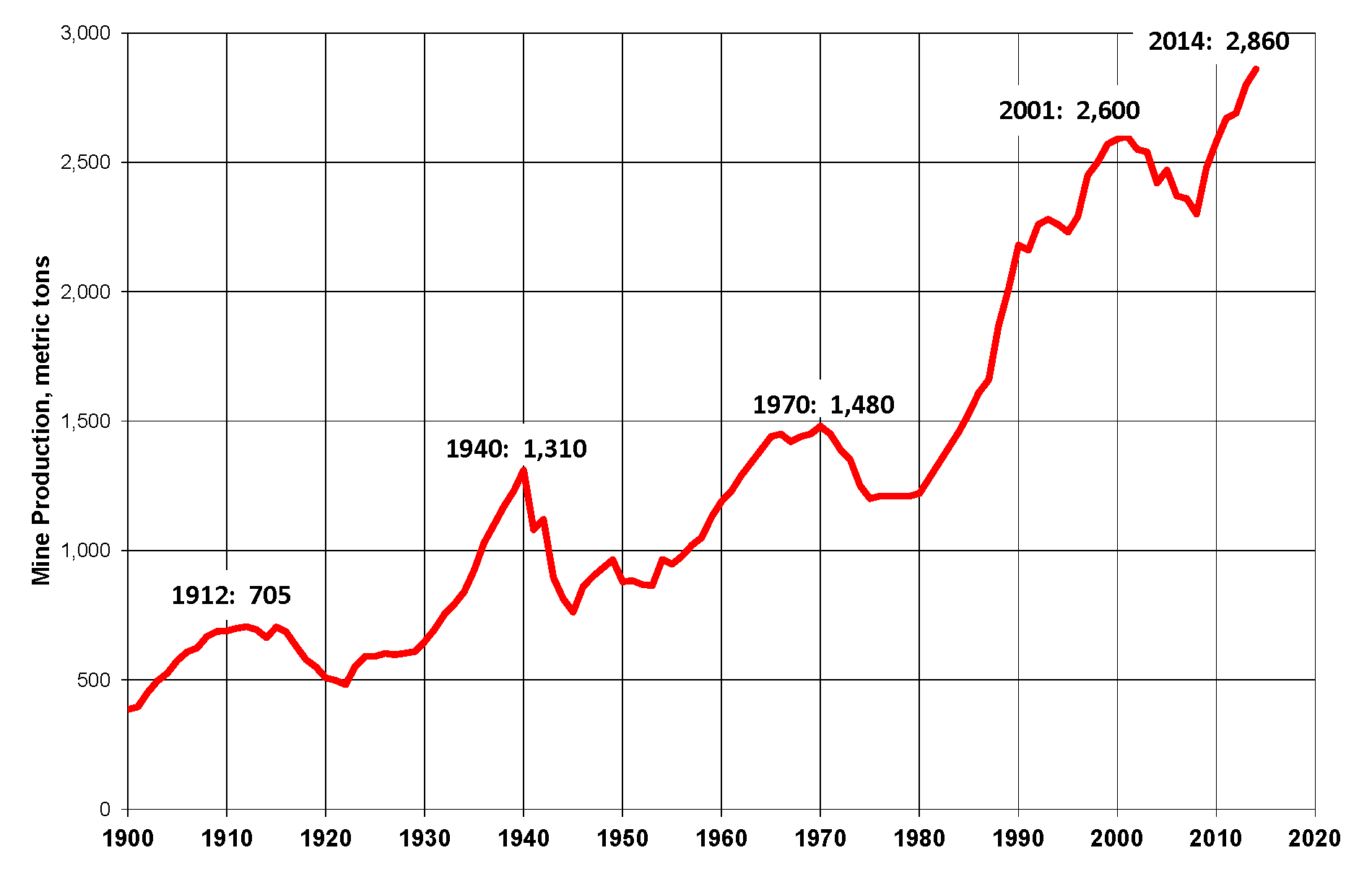 World mined gold production, 1900-2014. Data from USGS